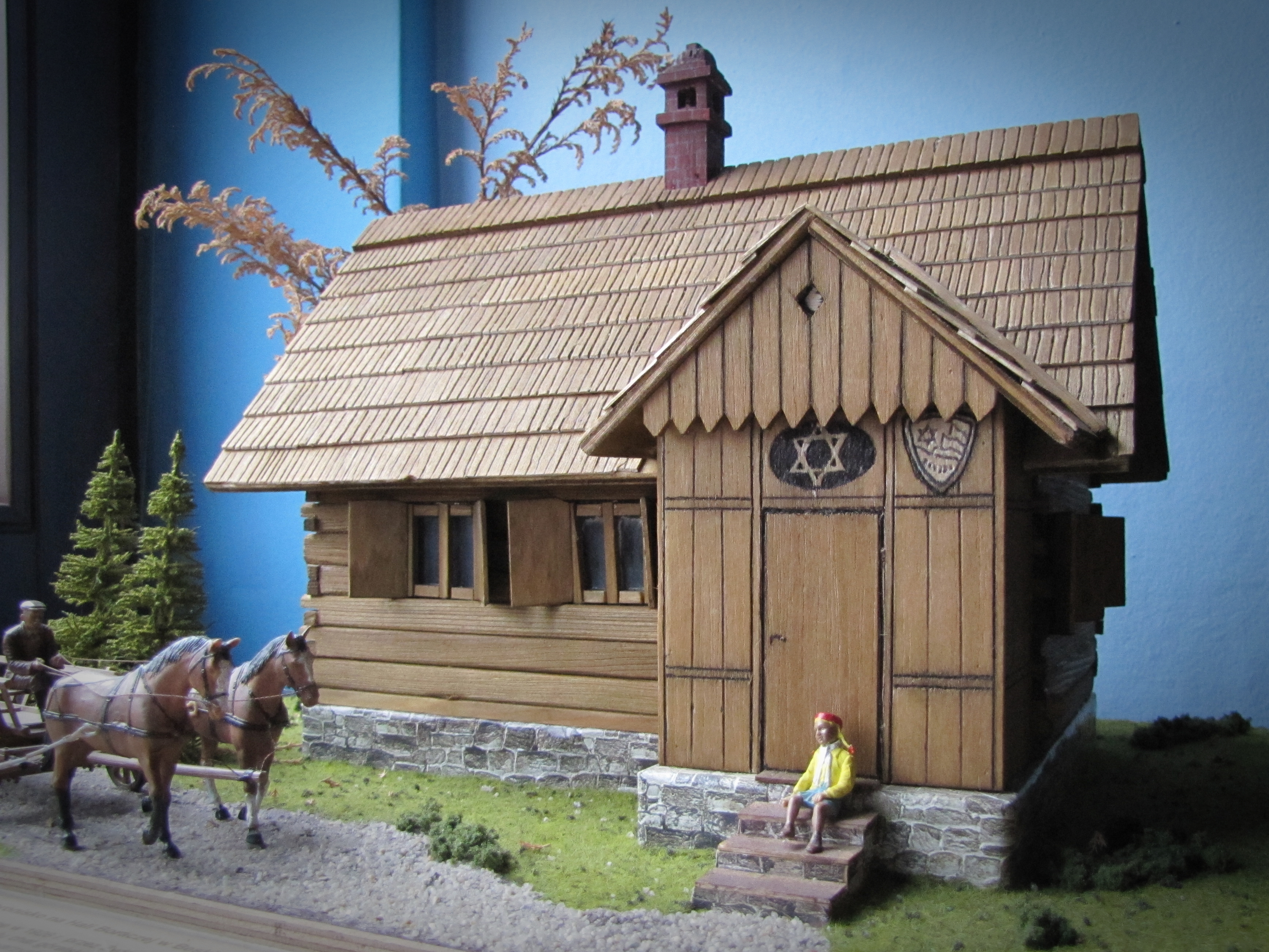 A miniature model of the first mountain hostel of the Maccabi Bielsko Jewish Sport Society at Hala Boracza in 1929. Made by: scholar Bernard Proszyk in 2010 for a school competition.